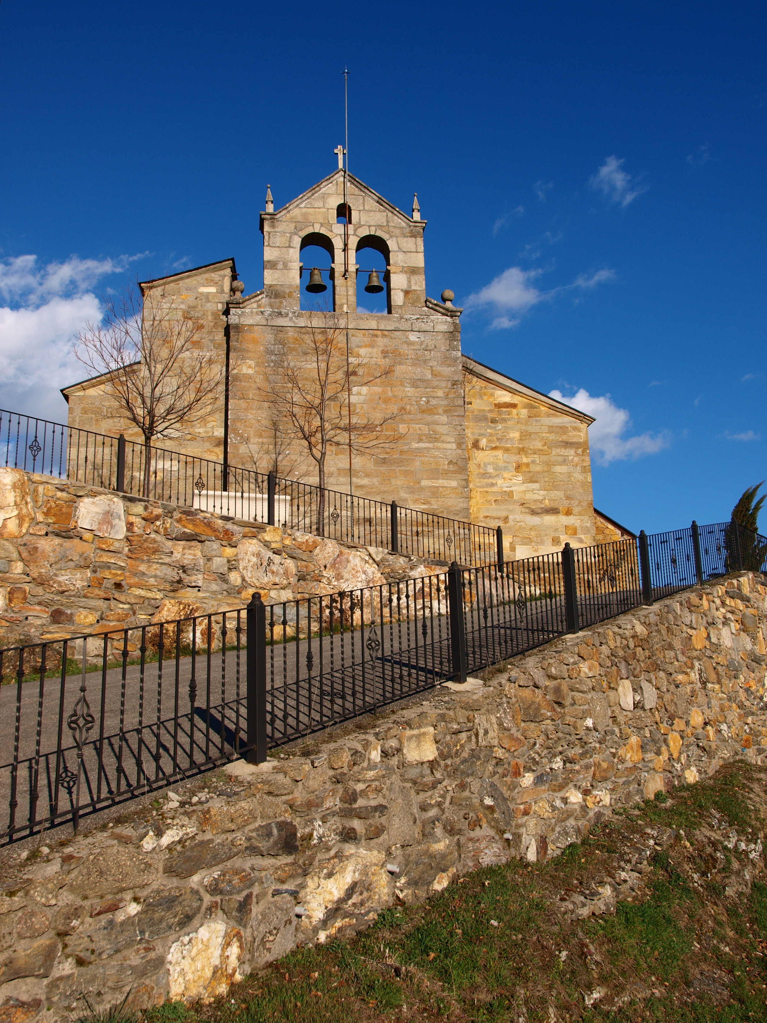 The church in the spanish village of Escuredo, province of Zamora